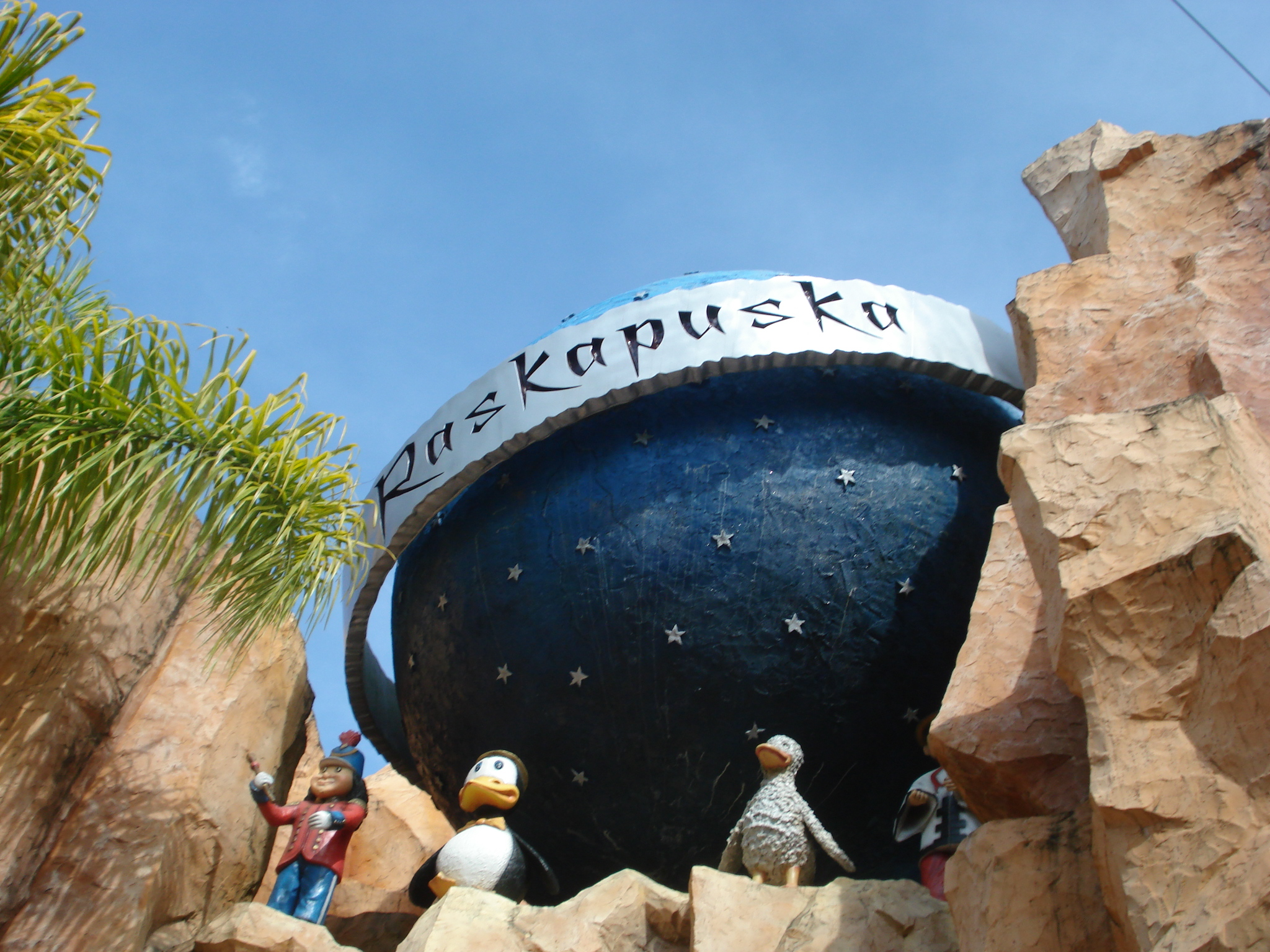 RaskapuskaGlobe